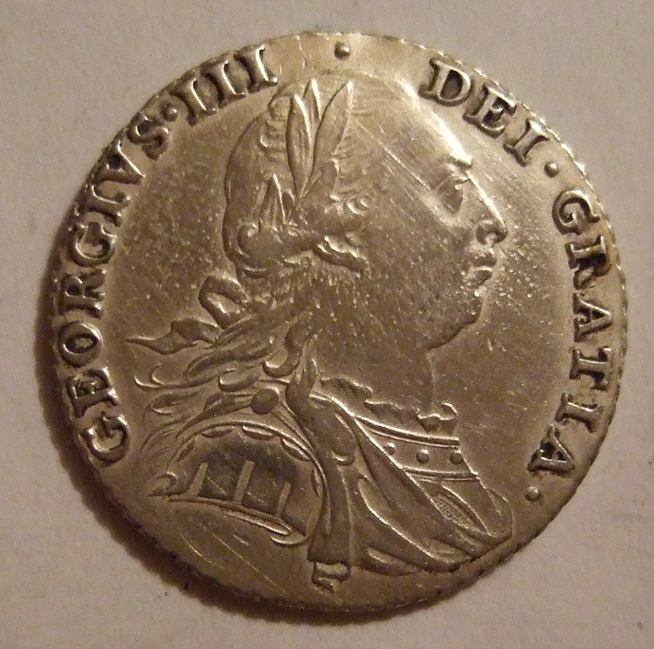 GREAT BRITAIN, GEORGE III 1787 ---SHILLING b